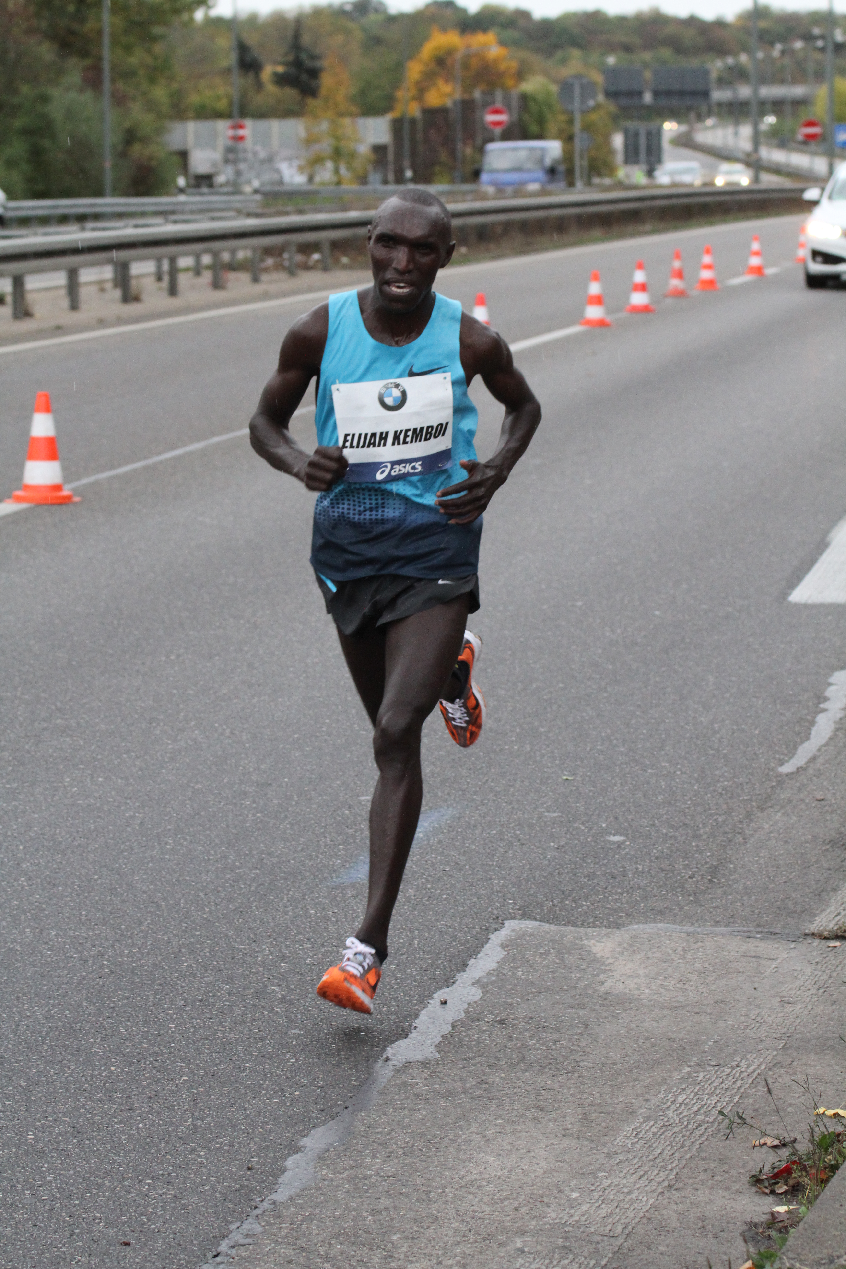 Elijah Kiprono Kemboi during the Frankfurt Marathon, km 24